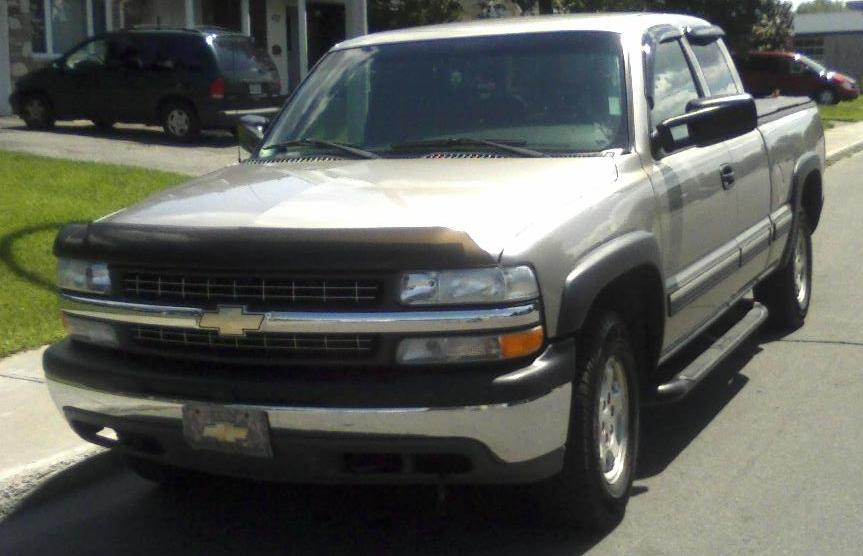 1999-2000 Chevrolet Silverado photographed in Montreal, Quebec, Canada.